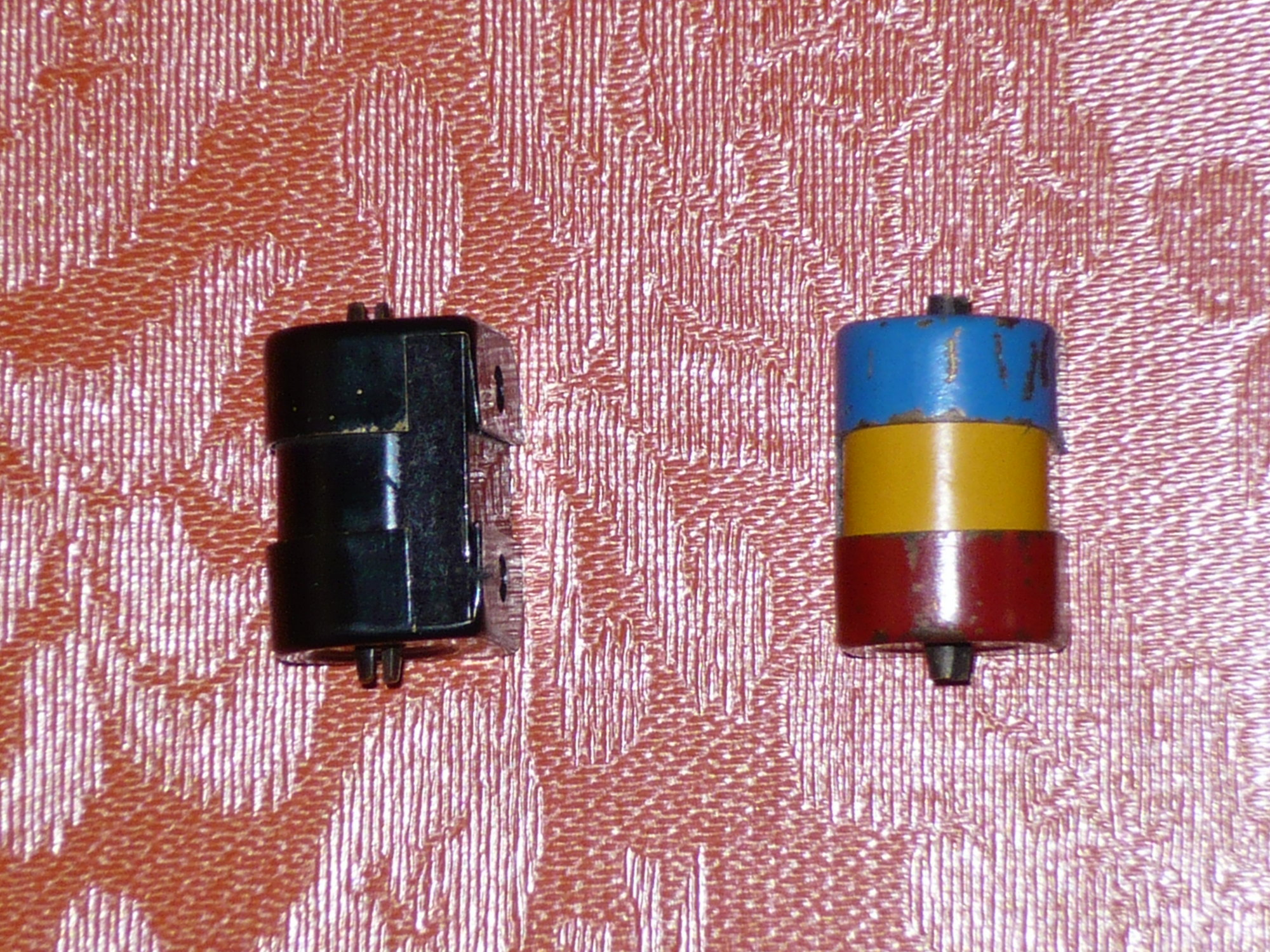 Steky camera cassettes